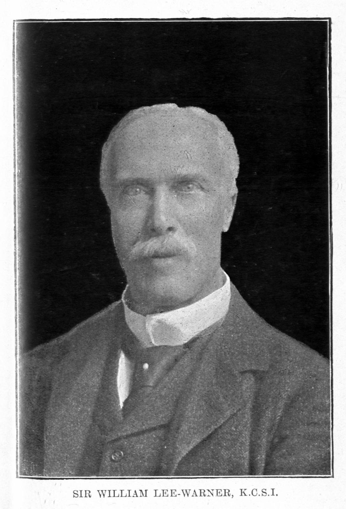 Portrait of William Lee-Warner